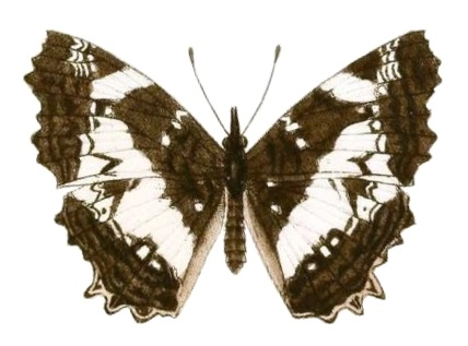 Boisduval, J.B.A. (1833): Mémoire sur les Lépidoptères de Madagascar, Bourbon et Maurice. Nouvelles Annales du Muséum d’Histoire Naturelle. Paris 2:149-270. Plate 8 figure 5 Libythea fulgurata synonym for Neptidopsis fulgurata (Boisduval, 1833)